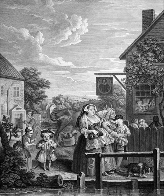 Four Times of the Day: Evening